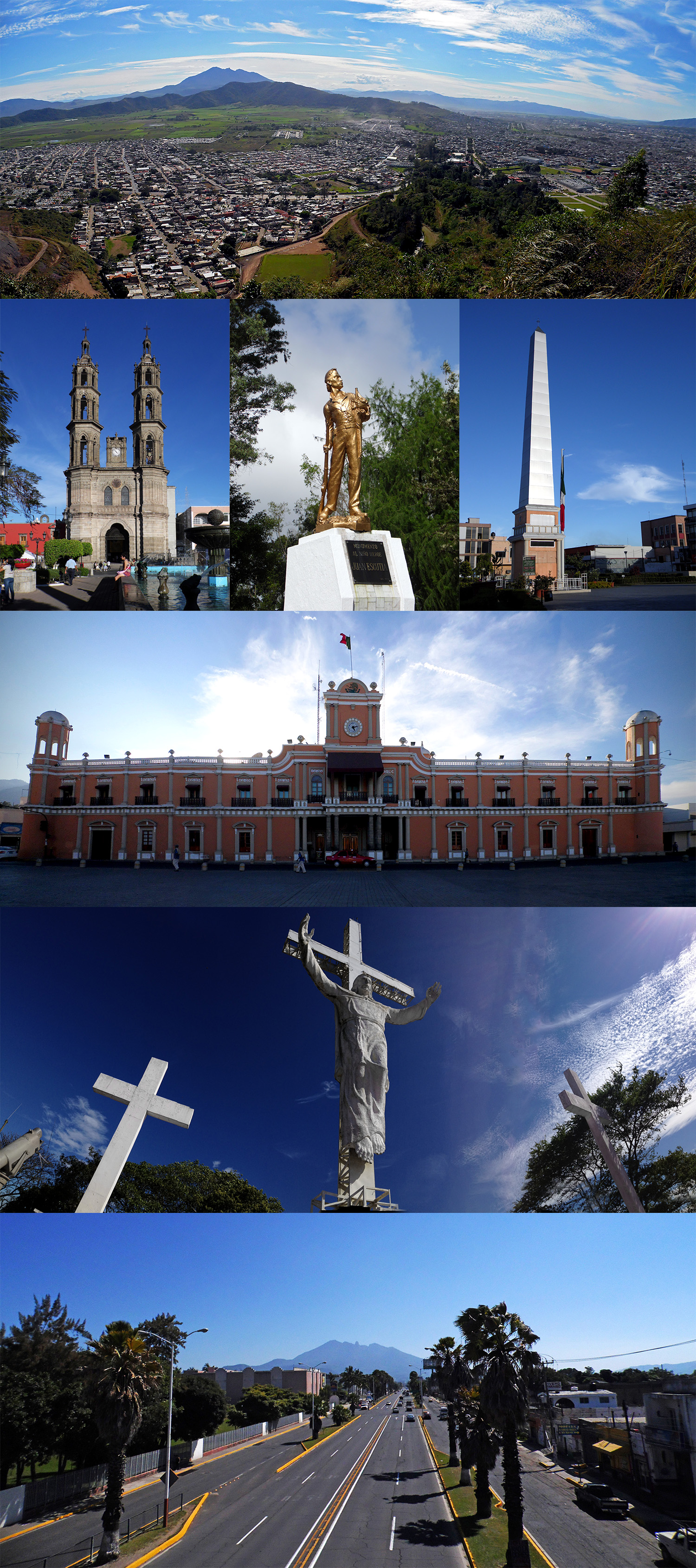 Collage of pictures from Tepic, México. From top to bottom, left to right: Panorama of northeast Tepic, in the background the Sangangüey volcano can be seen. Catedral of Tepic. Juan Escutia statue. "Bicentenario de la independencia y centenario de la revolución" obelisk. Palacio de gobierno. Crosses at the top of Cerro de la cruz Insurgentes avenue, right by the Instituto Tecnológico de Tepic. All pictures taken by User:House.